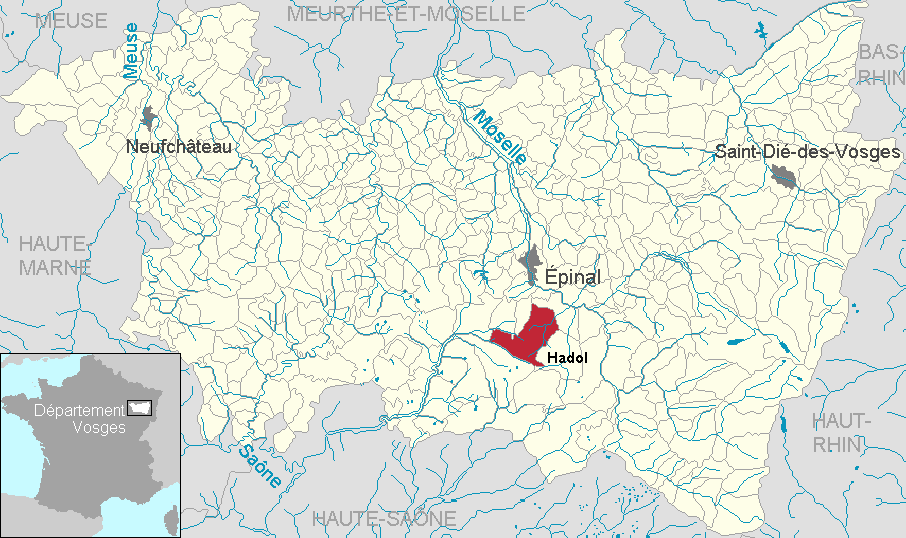 Hadol in the department of Vosges, Lorraine, France